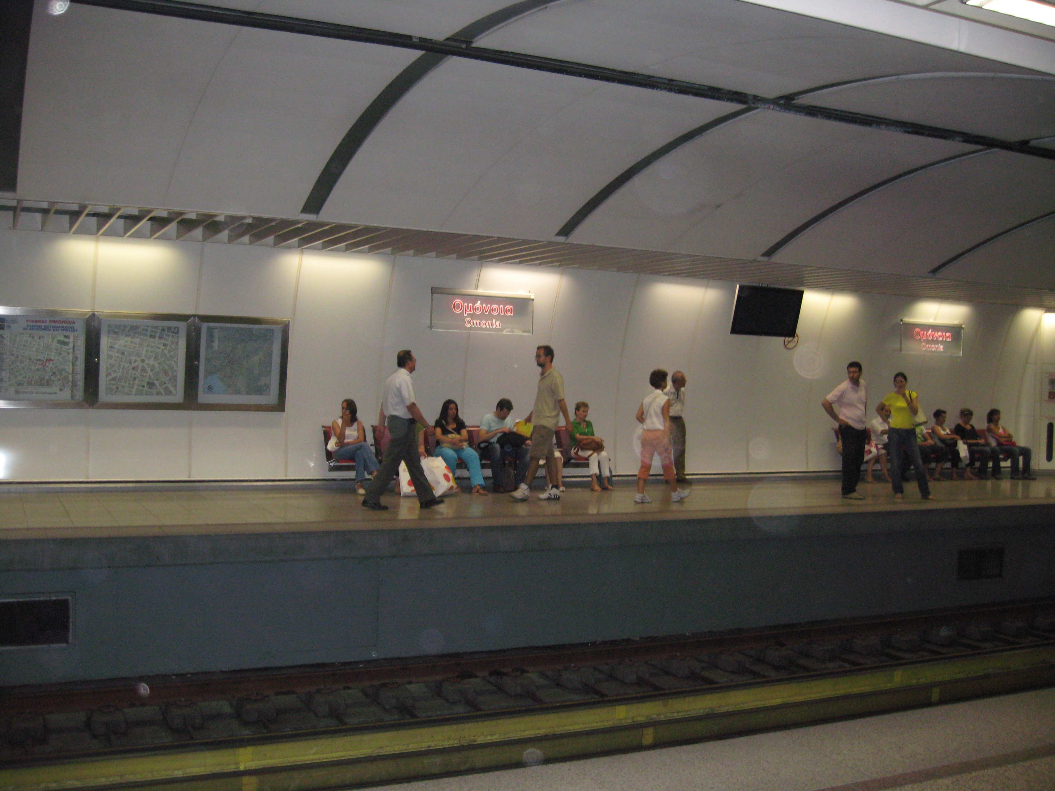 Athens Metro Omonia station